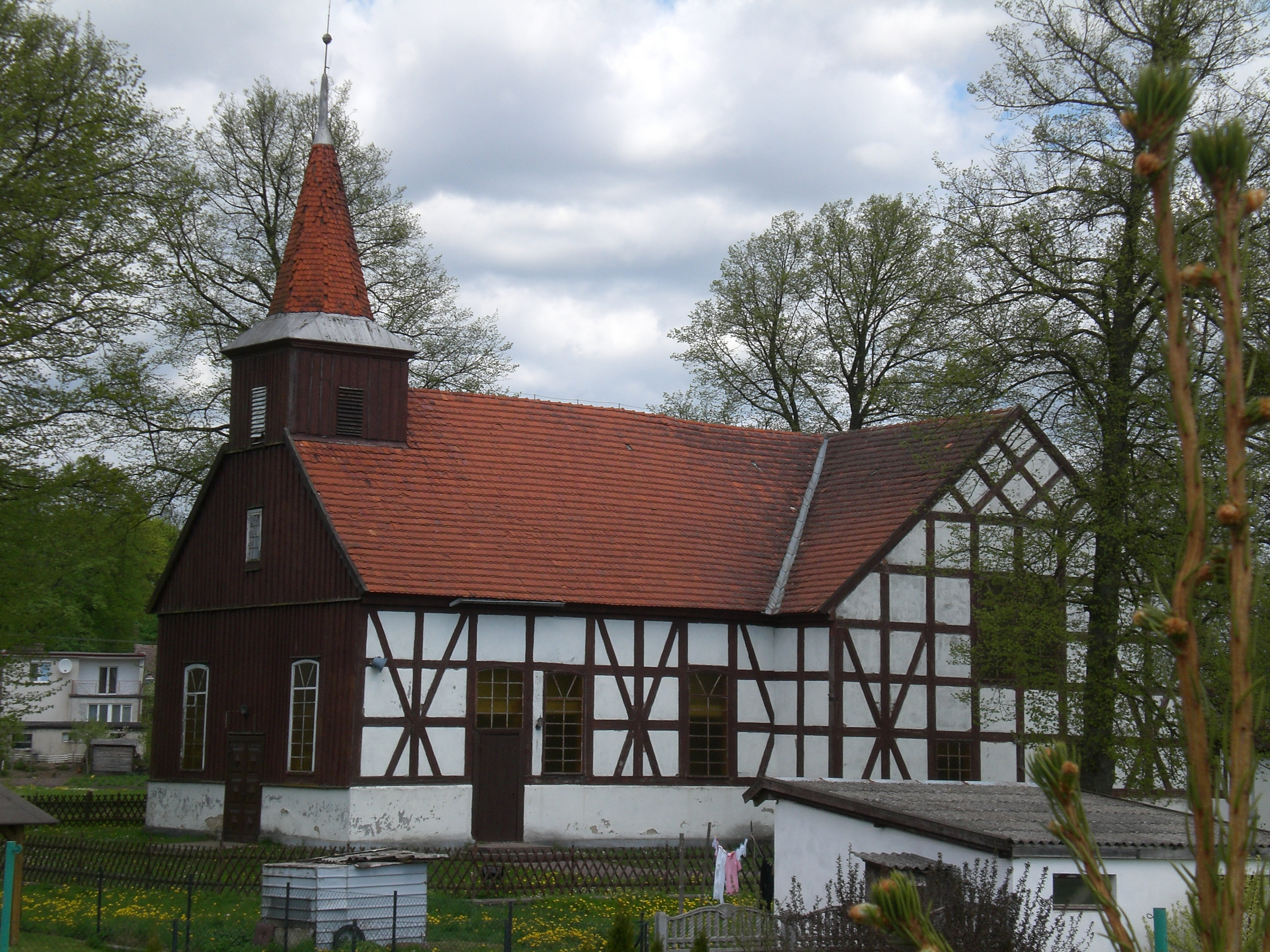 Nowe Polaszki - St. Mary's church (bd.1845)